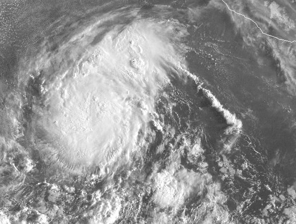 Strengthening Tropical Storm Ivo, some 500 miles off the Mexican coast on September 19. This visible light image was captured by the GOES-West satellite at 1400 UTC.